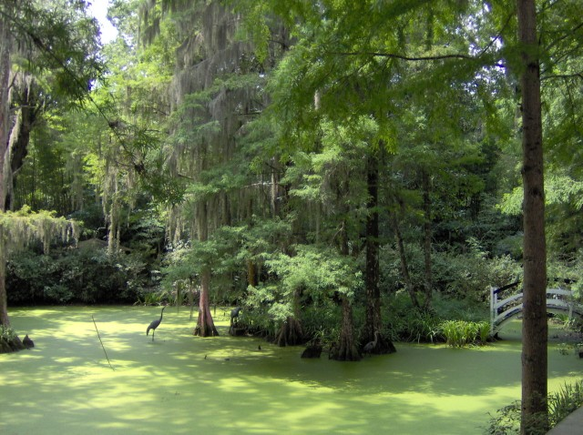 A pond at the Magnolia Plantation and Gardens in Charleston, South Carolina, in the southeastern United States.